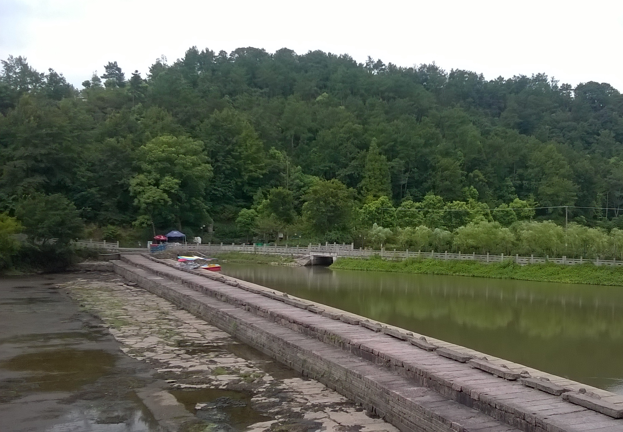 A picture of the historical site of Tashan Weir (Tuoshanyan) taken in August 2016